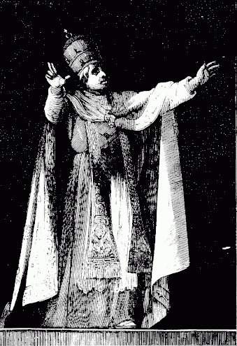 Pope Gregory the Great